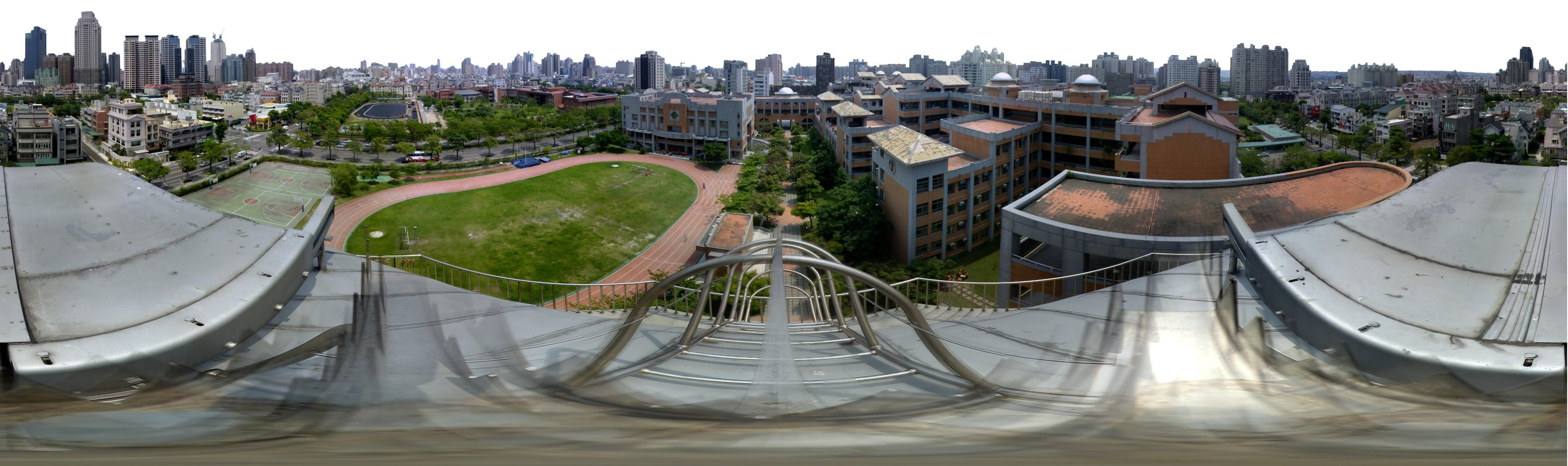 A panorama taken from the observatory of Hui-wen High School, Taichung City, Taiwan中文（台灣）: 惠文中學天文台圓頂全景照。